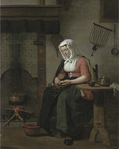 A woman seated in a kitchen peeling apples